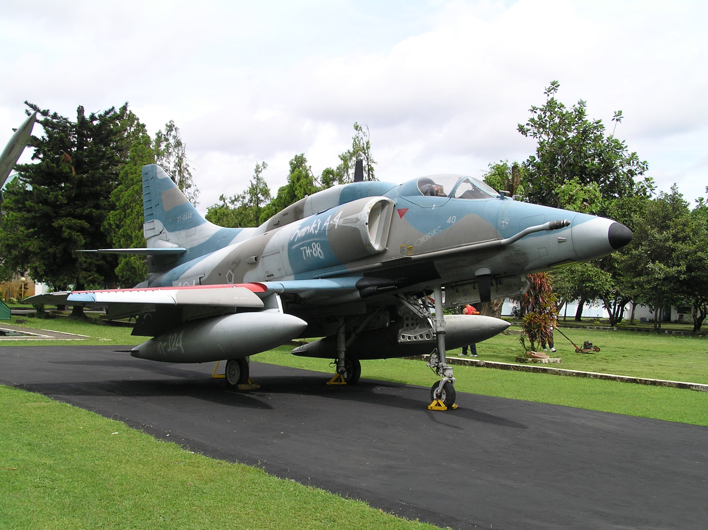 Photo of an ex-Indonesian Air Force (Tentara Nasional Indonesia Angkatan Udara or TNI-AU) McDonnell Douglas A-4H Skyhawk at the Indonesian Air Force Museum. The A-4H was originally produced for Israel, which later sold some to Indonesia to supplement the Indonesian A-4Es delivered by the USA. The A-4H was an A-4E with 30 mm DEFA guns in place of the U.S. 20 mm guns and different avionics. It can be easily distinguished by the lager gun fairings. Barley visible is also the exhaust dampener on the tailpipe fitted in Israel to give better protection from heat seeking missiles.